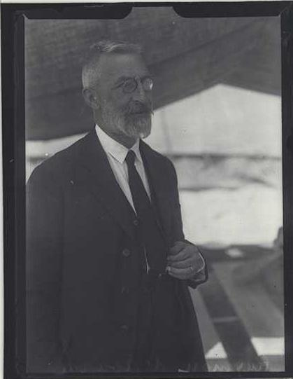 Ramon d'Abadal during a meeting in Catalonia